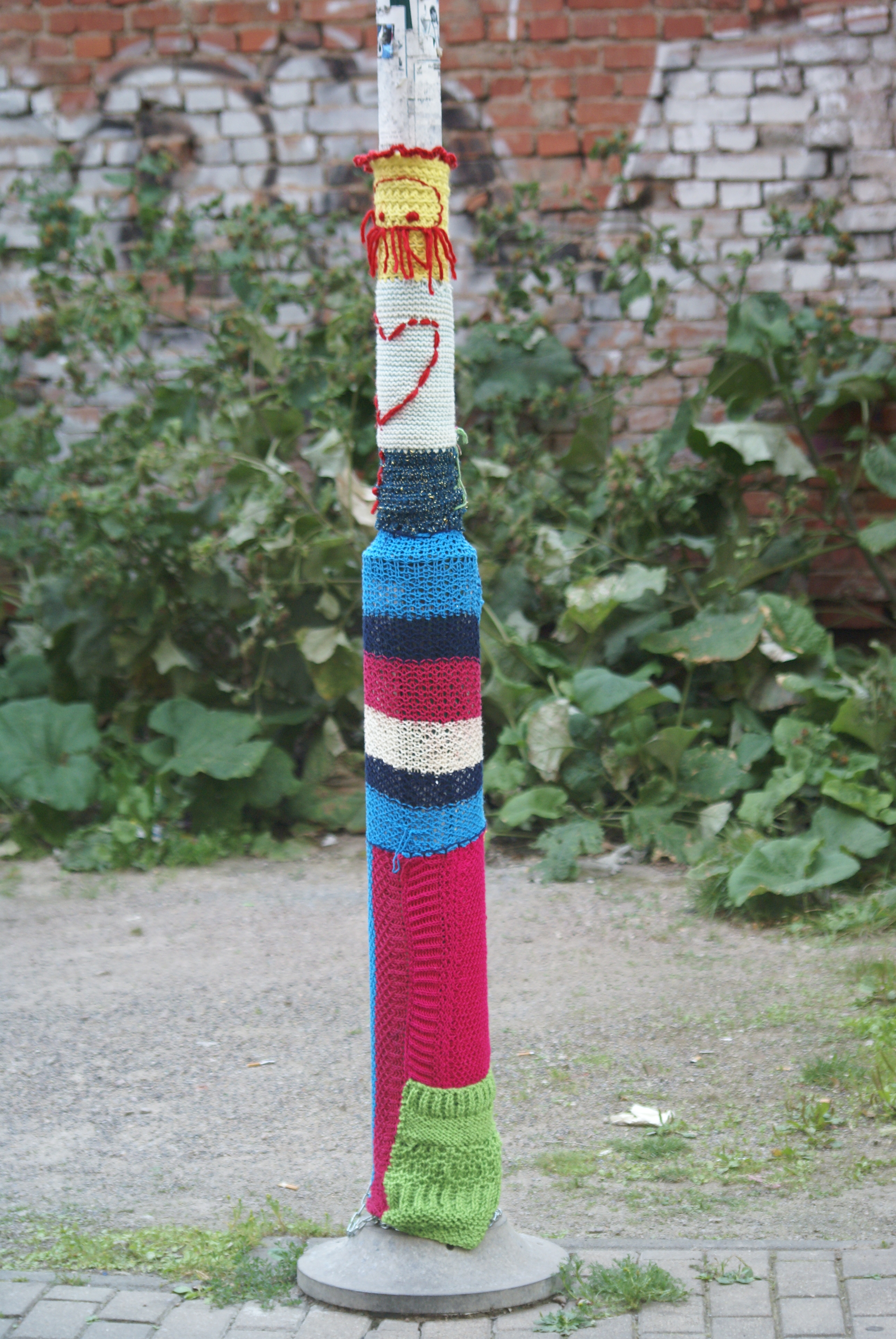 Yarn bombing in Erfurt - Thuringia, Germany.